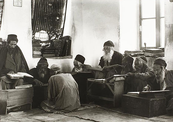 Elders gathered in study a local synagogue, in Ottoman Palestine